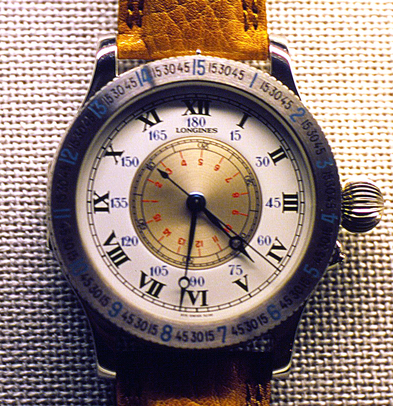 Musée International d'Horlogerie, La Chaux-De-Fonds, Switzerland.